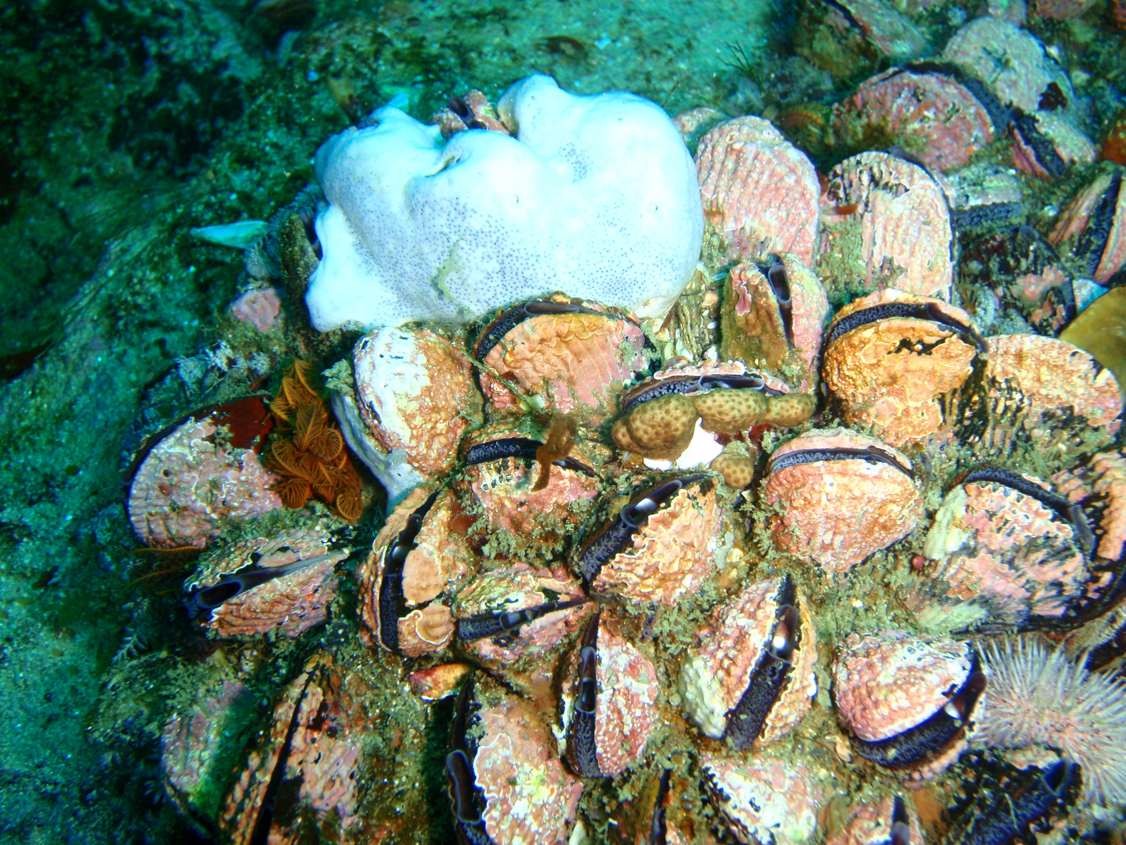 Bivalves at Strawberry Rocks, Oudekraal.